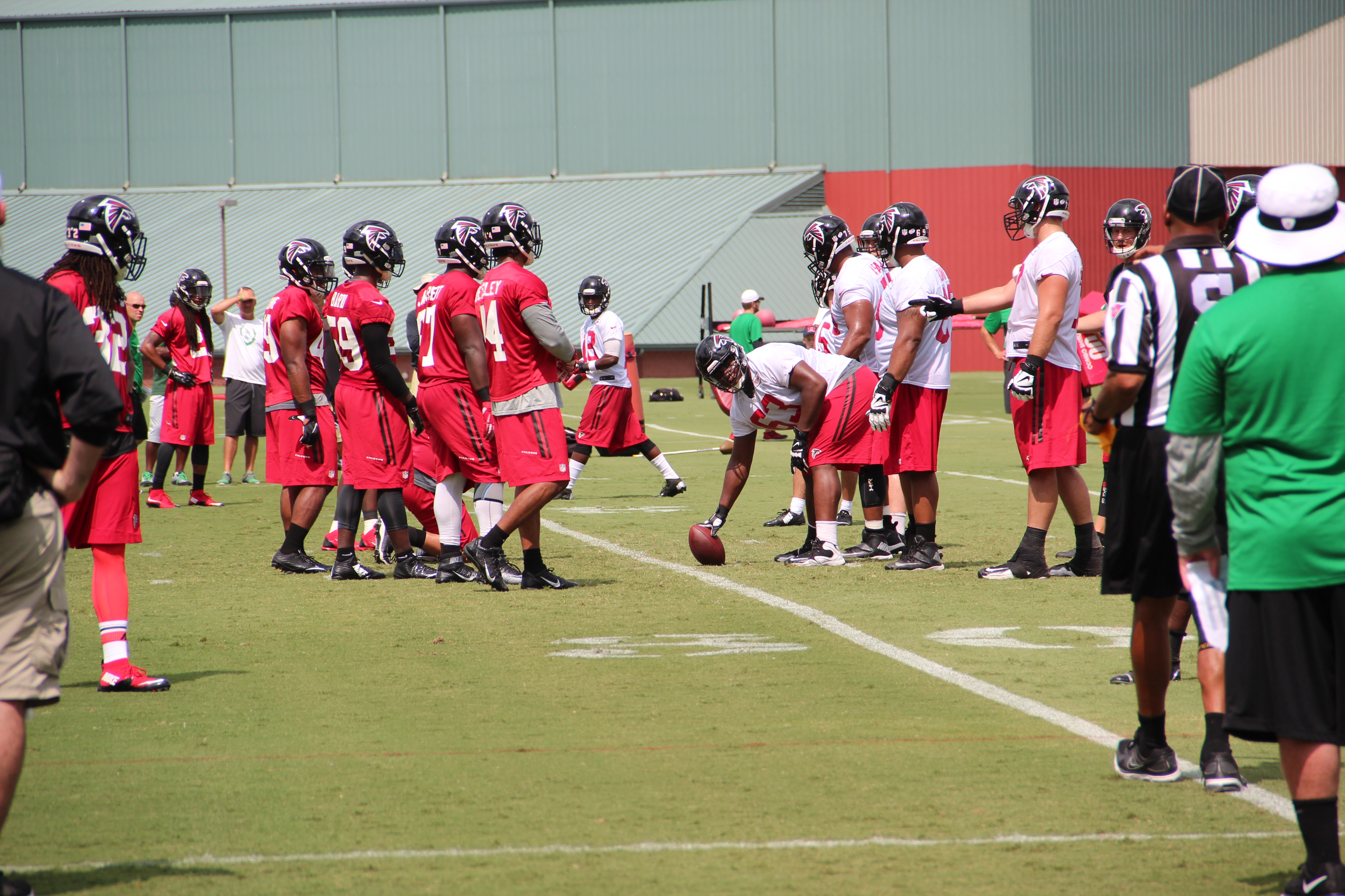 Atlanta Falcons training camp